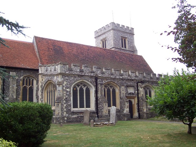 St.Martins Church, Ruislip Viewed from Eastcote Road